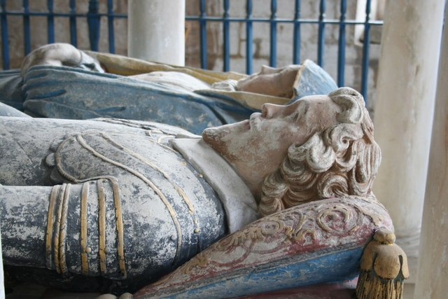 Sir Anthony Irby. Detail of the grand ten-poster tomb for Sir Anthony Irby 763531 and wife. Sir Anthony 1576-1610 was the son of Sir Anthony Irby and Alice, daughter of Thomas Welby of Moulton. His wife Elizabeth was the daughter of Sir John Peyton of Iselham Cambridge, she died in 1625.